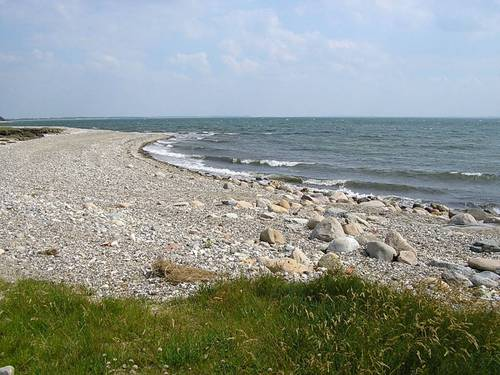 Draget at Nissum Bredning. Nissum Bredning is the westerly part of Limfjorden in Denmark